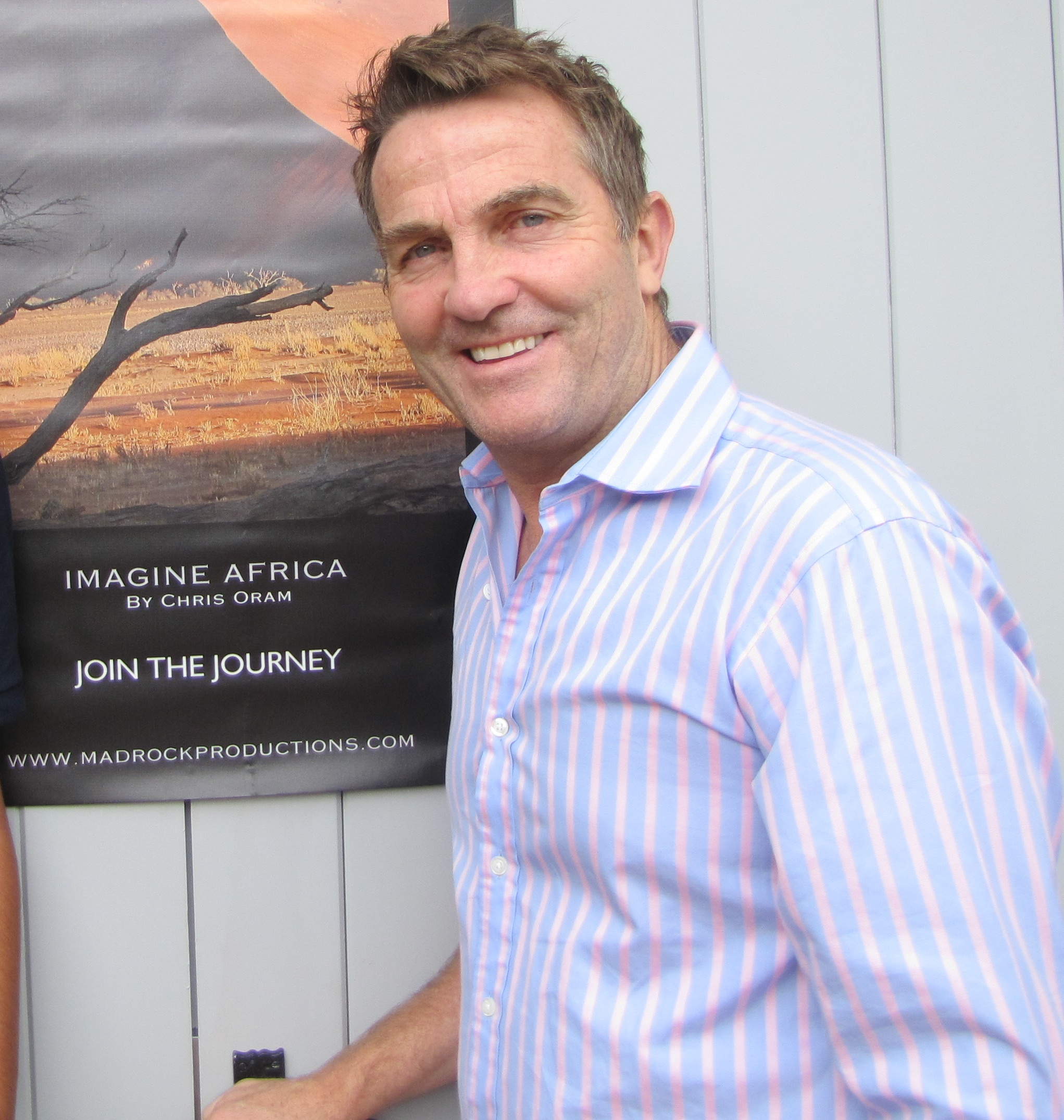 Bradley Walsh in 2012